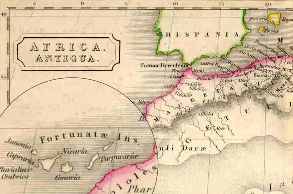 An ancient map from the canary island as know as Fortunate islands in the past